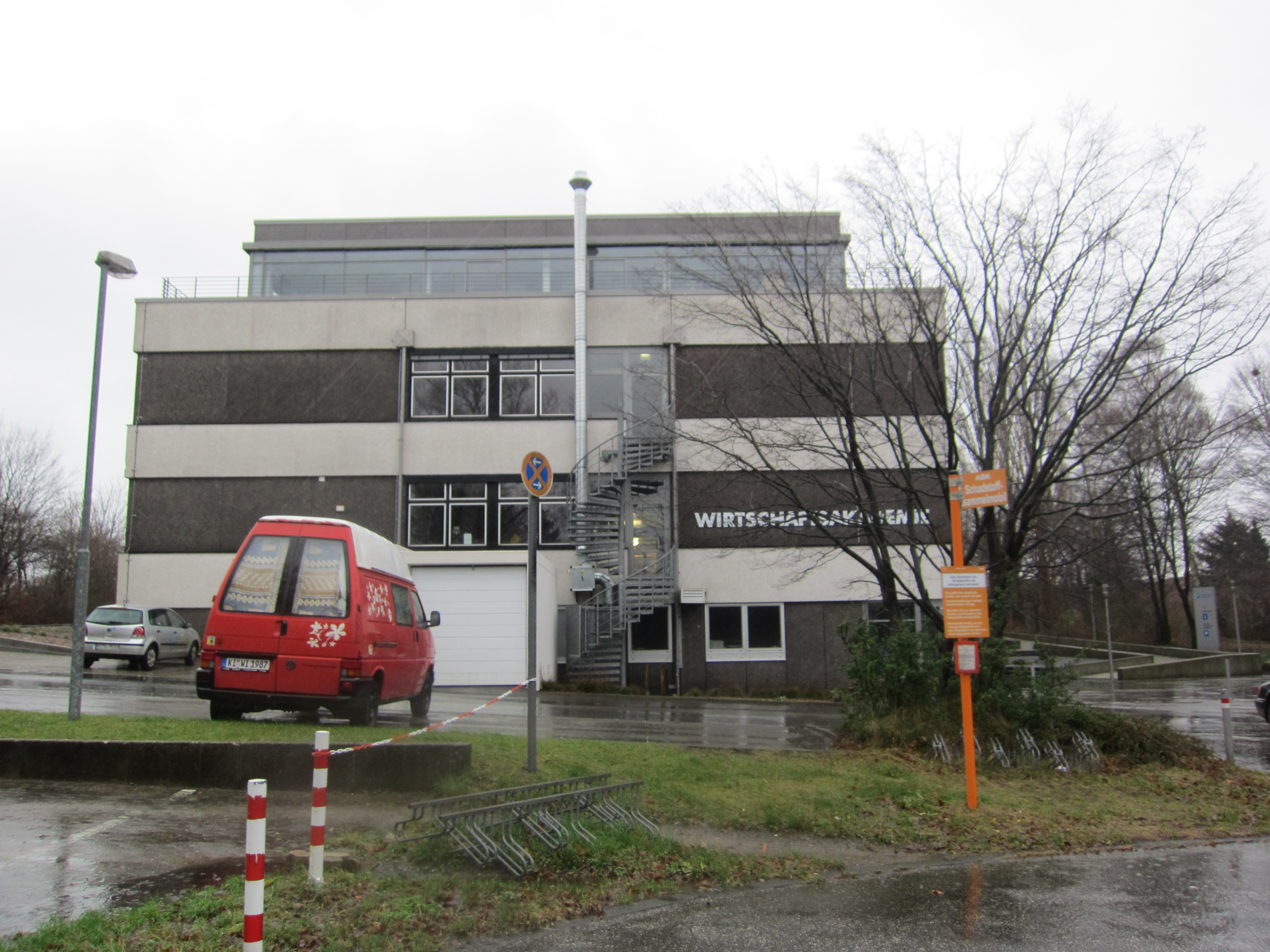 Wirtschaftsakademie Schleswig-Holstein